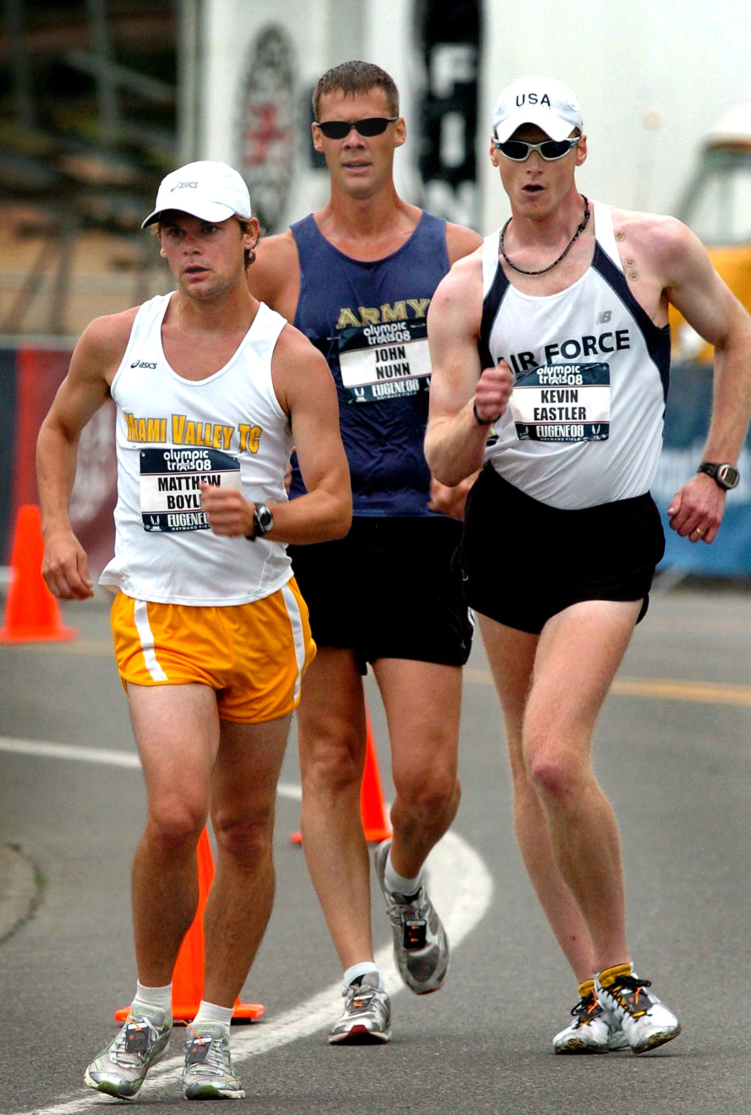 U.S. Air Force World Class Athlete Program Capt. Kevin Eastler, right, passes U.S. Army WCAP Sgt. John Nunn, center, en route to winning the 20-kilometer race walk at the 2008 U.S. Olympic Team Trials for Track & Field, July 5, 2008, outside Autzen Stadium in Eugene, Ore. Eastler won the race in 1 hour, 27 minutes, 8 seconds, and was followed by runner-up Matthew Boyles, left, of Miami Valley Track Club in 1:28:20. Nunn finished fourth with a time of 1:30:35. Eastler will compete for Team USA at the Olympic Games in Beijing.